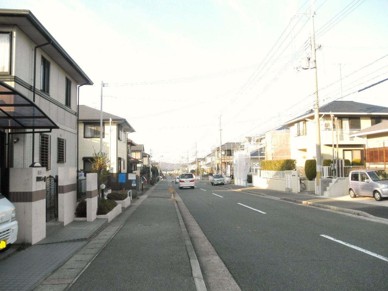 Shijimitown Aoyama3 Mikicity Hyogopref